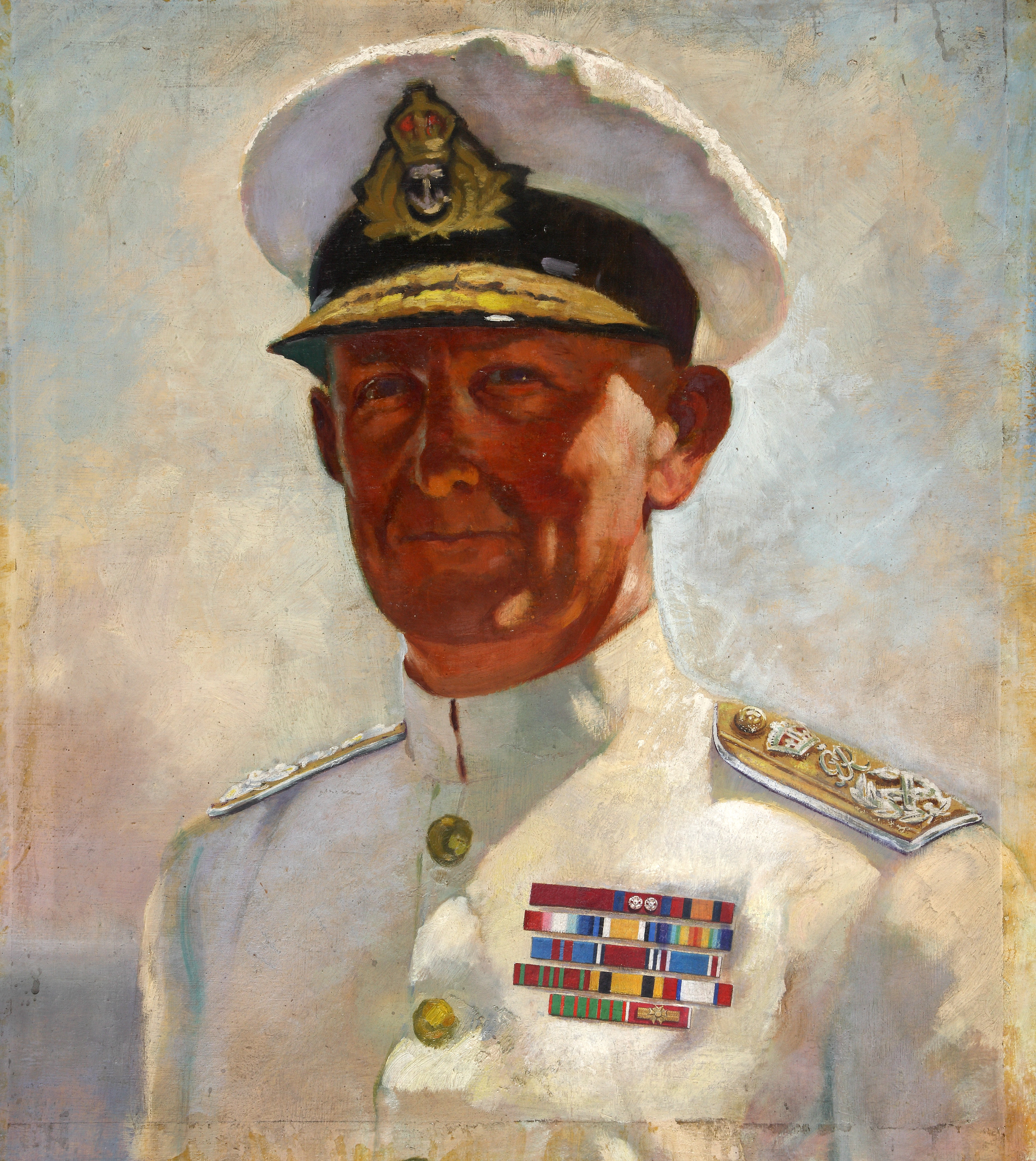 Depicted person: Andrew Cunningham, 1st Viscount Cunningham of Hyndhope.